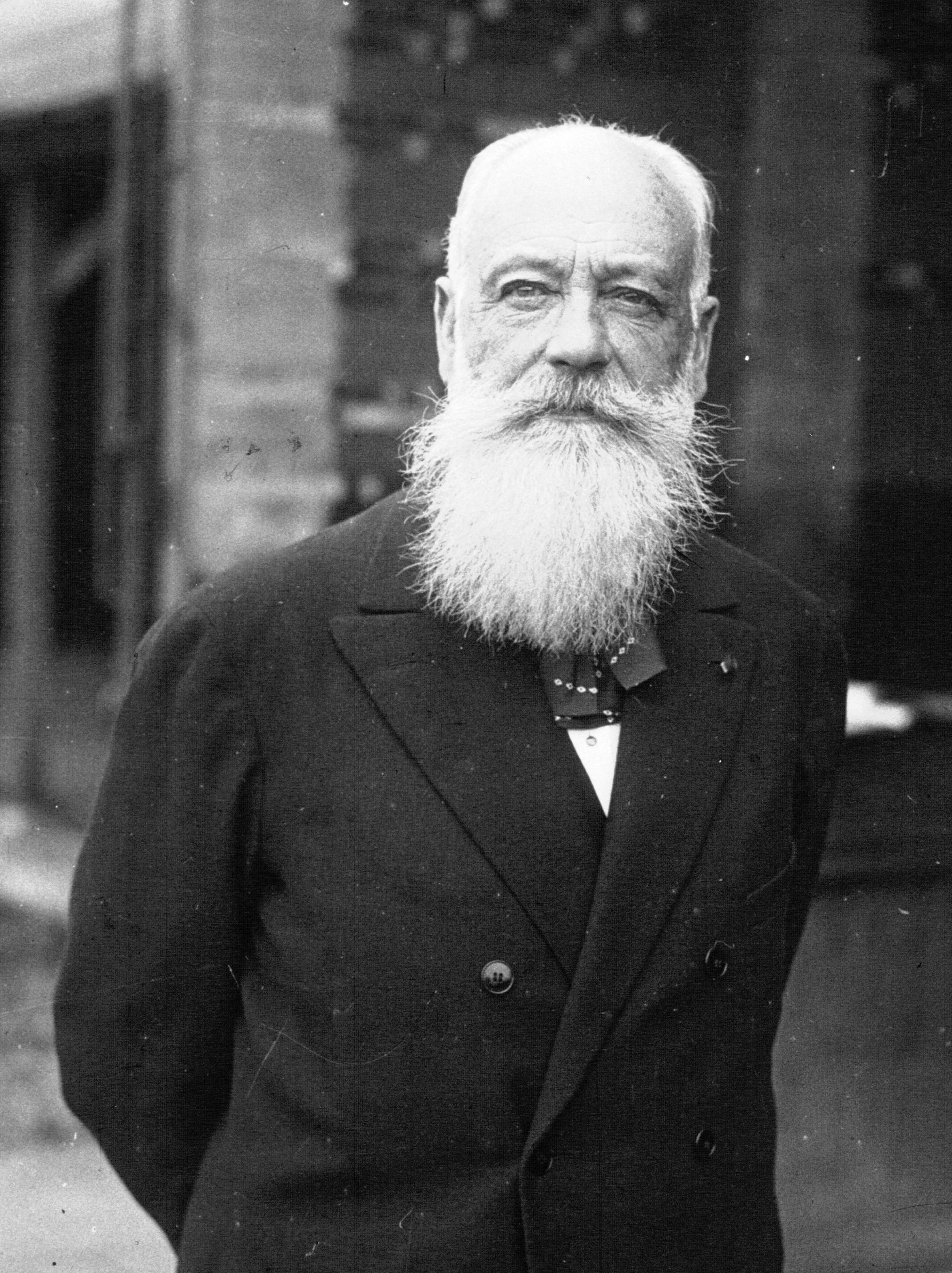 French sport shooter and President of the French Olympic Committee Justinien Clary (1860-1933).